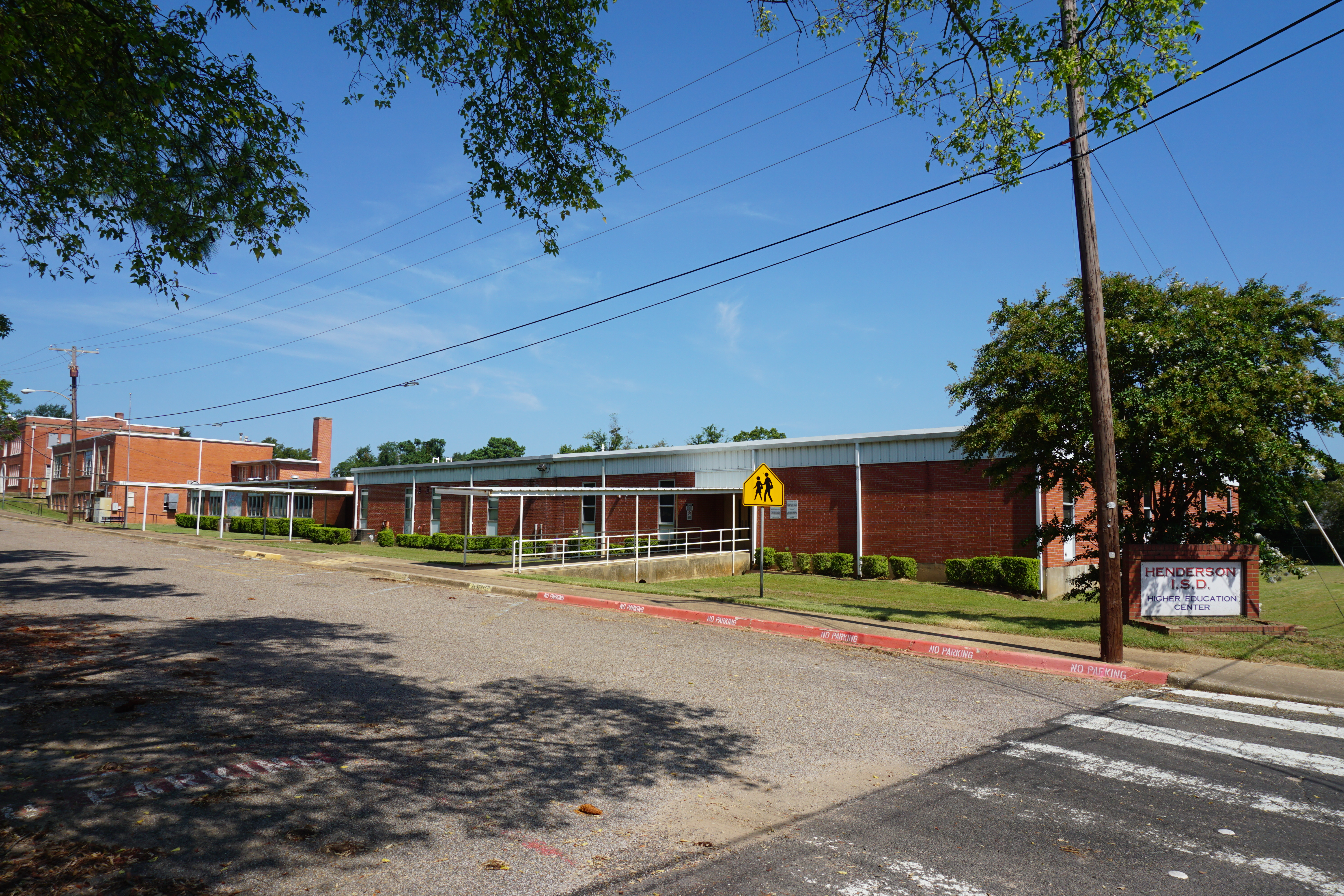 The Henderson ISD Higher Education Center in Henderson, Texas (United States).